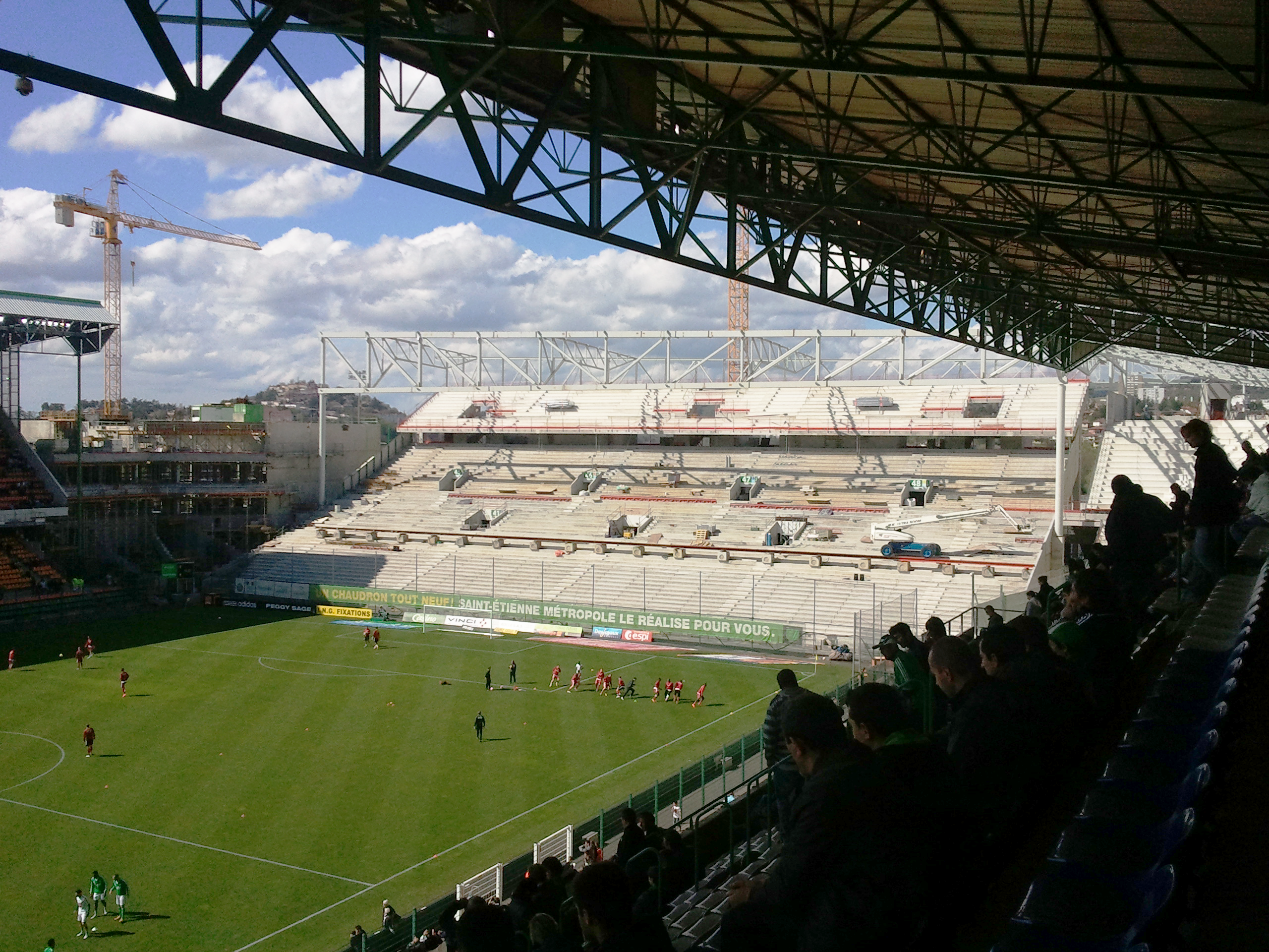 Charles Paret stand, North West and North East angles under construction for the renovation of Geoffroy-Guichard stadium for Euro 2016, on April 29th, 2012 (Saint-Etienne, France).